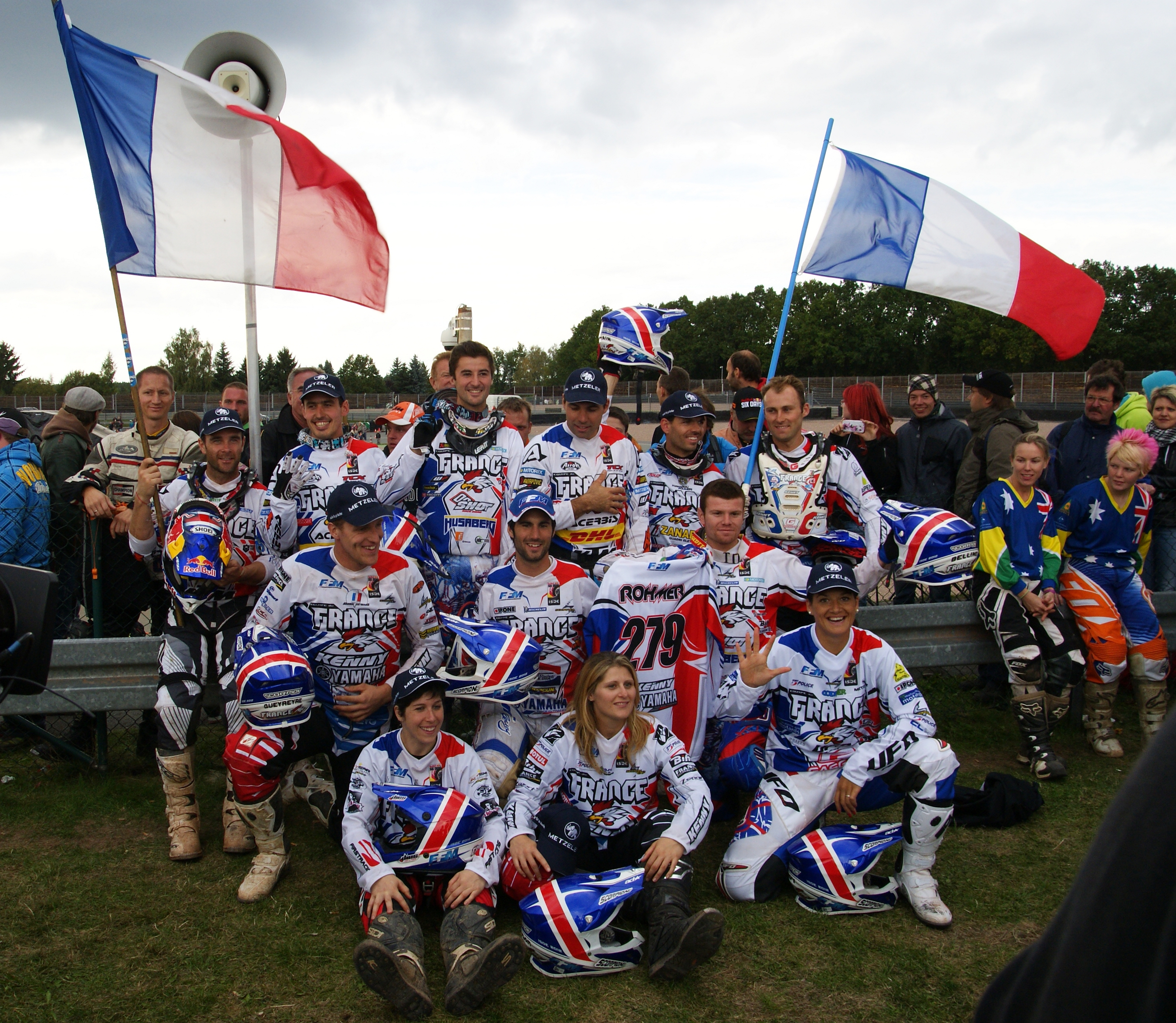 The making of this document was supported by the Community-Budget of Wikimedia Germany. 87. ISDE Germany Red Bull SIX DAYS Trophy Teams France - Winner of World Trophy, Junior World Trophy & Womens Trophy